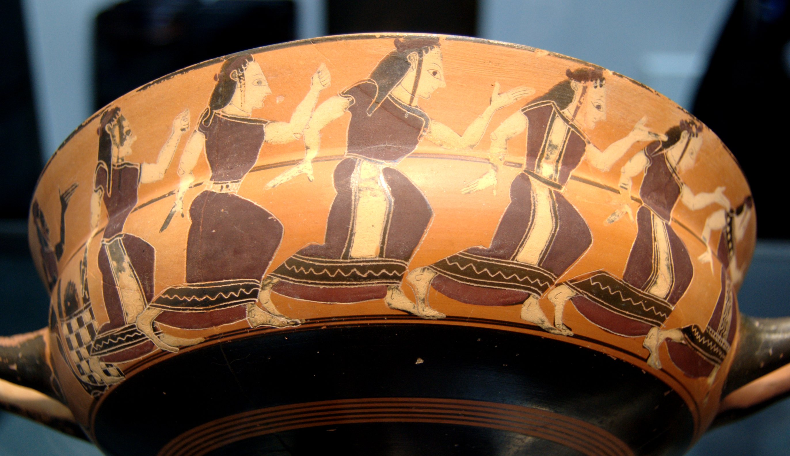 Rape of Thetis: Peleus appears near the burning altar where are dancing the Nereids. Side A of an Attic black-figure kylix, ca. 560 BC.